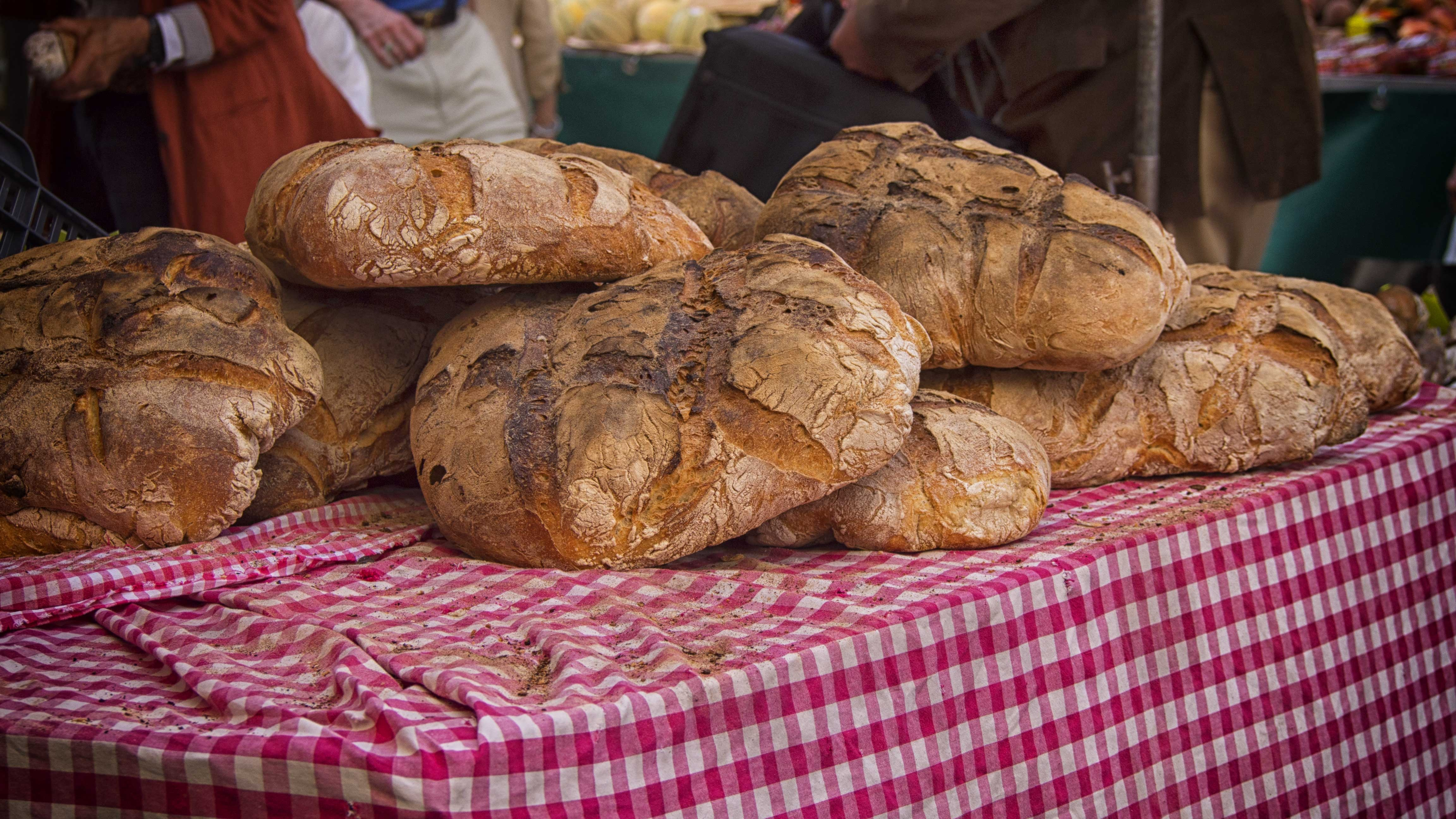 French bread